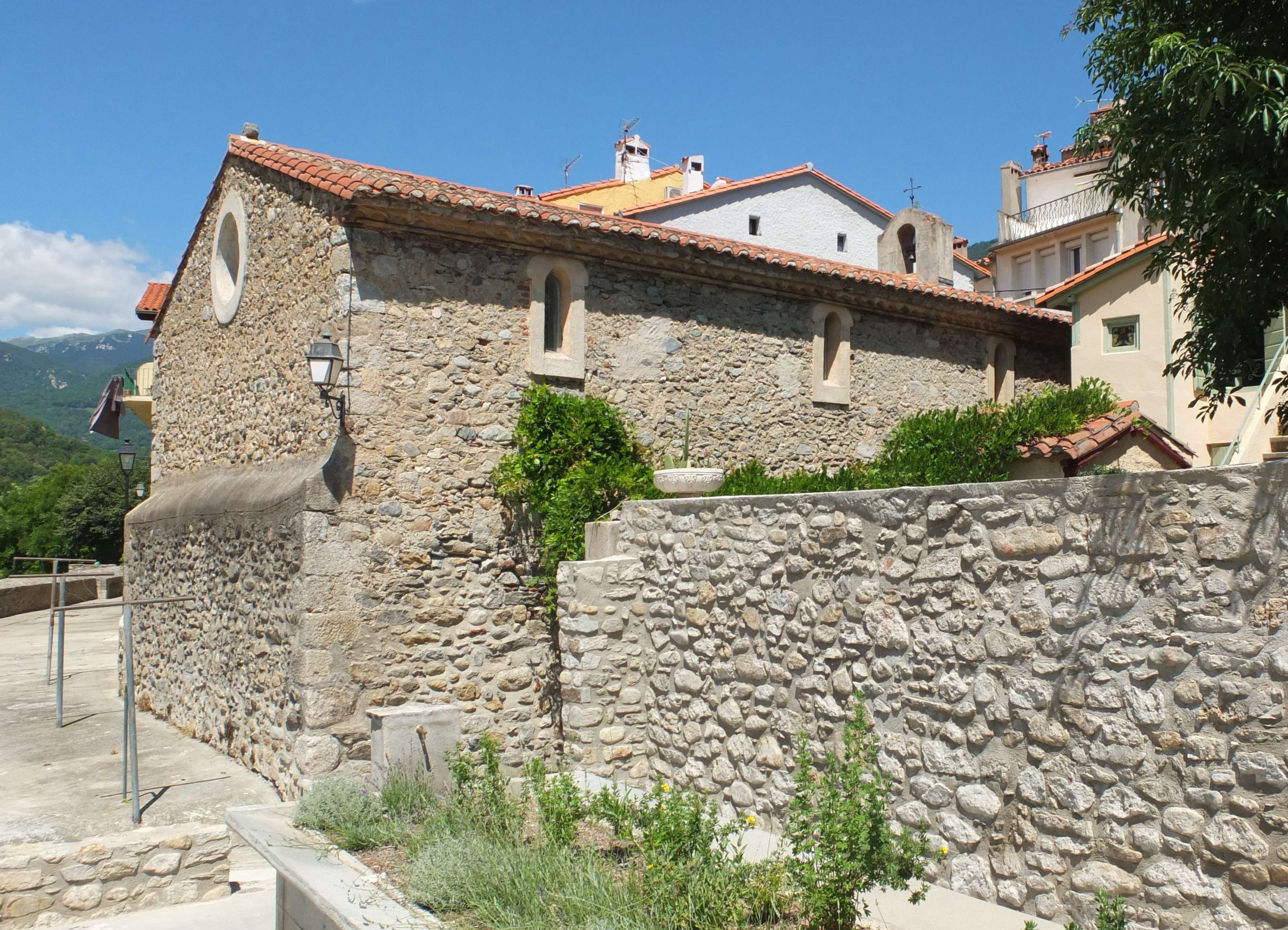 Chapel "Saintes Juste et Ruffine" (17th century), Prats-de-Mollo-la-Preste, France (view N).